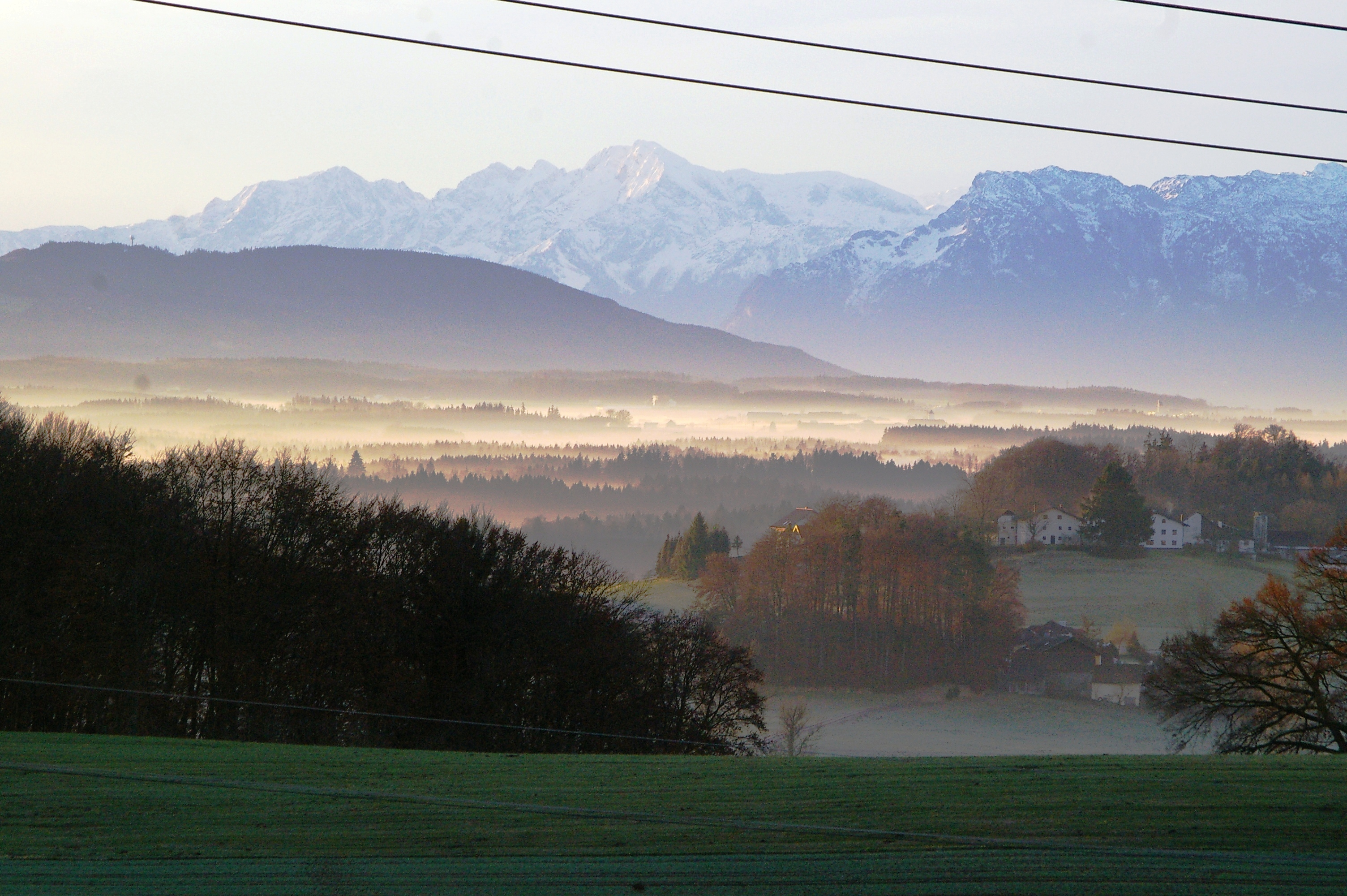 landscape in upper austria